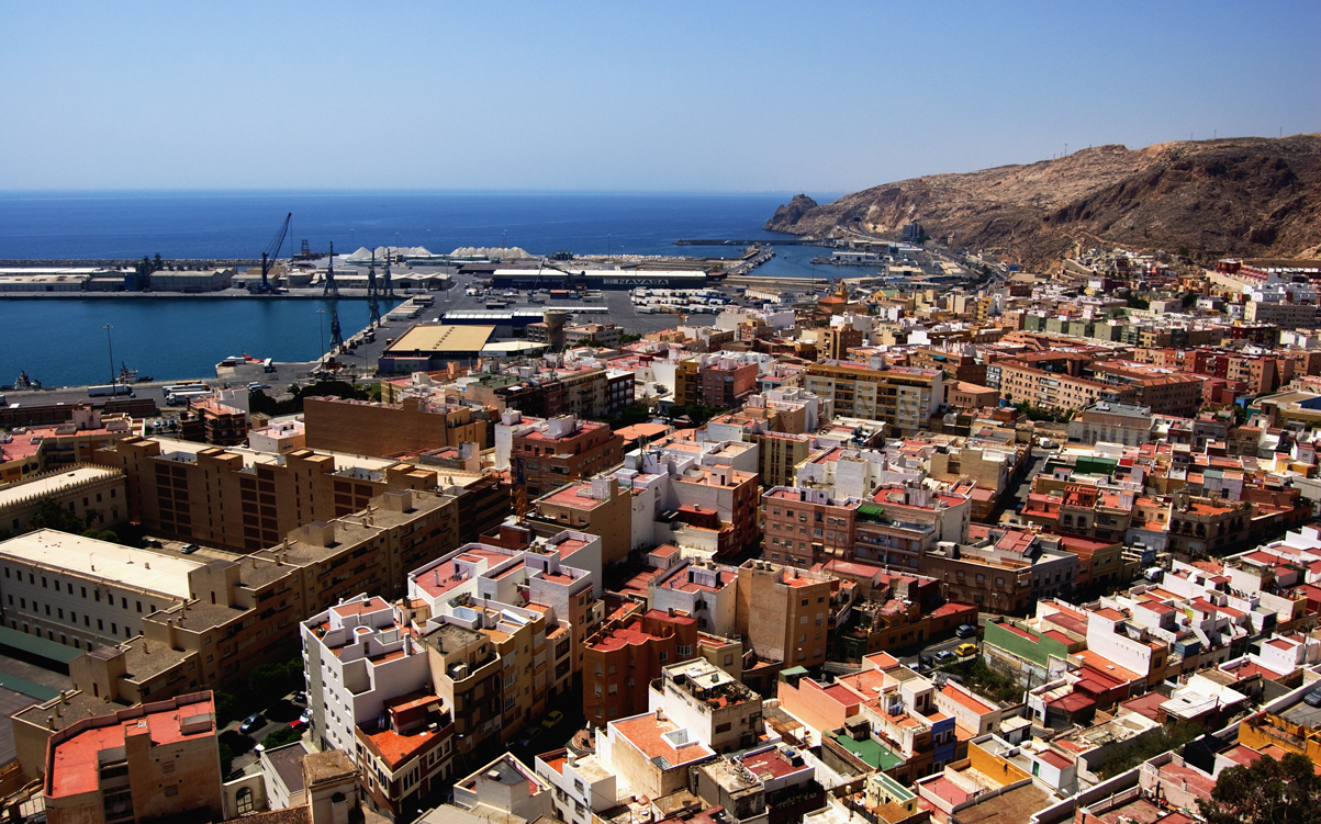 View of Almería and its port, Spain.